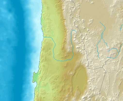 Relief map of Antofagasta region, Chile